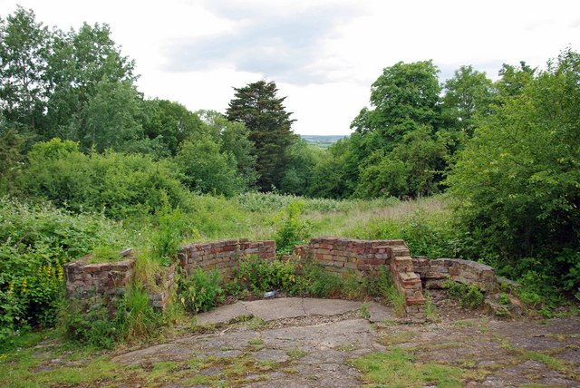 Ruined Hawthorn in Dunton Plotlands. This is the ruin of "Hawthorn" which was one of the Dunton Plotland dwellings. You can see the last survivor of them at 1375111. For more info the whole area is now in the care of Essex Wildlife Trust Continue on a virtual tour of Wildlife Trust Reserves in Essex by visiting 425472